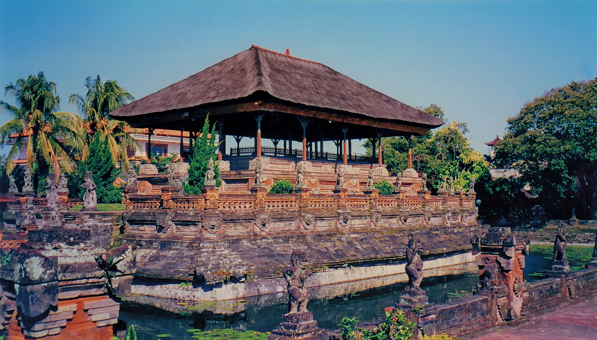 The Klungkung Palace, officially Puri Agung Semarapura, is a historical building complex situated in Semarapura, the capital of the Klungkung Regency (kabupaten) on Bali, Indonesia. The palace was erected at the end of the 17th century, but largely destroyed during the Dutch colonial conquest in 1908. Today the basic remains of the palace are the court of justice, the Kertha Gosa Pavilion, and the main gate that bears the date Saka 1622 (AD 1700). Within the old palace compound is also a floating pavilion, the Bale Kembang. The descendants of the rajas that once ruled Klungkung today live in Puri Agung, a residence to the west of the old palace, which was built after 1929. The Kertha Gosa pavilion is an example of Balinese architecture located on the island of Bali, in the city Klungkung, Indonesia. The Pavilion was first built in the early 18th century by Dewa Agung Gusti Sideman. The first function of the pavilion was for the court of law in 1945.Kertha Gosa was repainted in the 1920s and again in the 1960s. The people who discovered the pavilion knew there was an extensive history behind the pavilion. The discovery of Kertha Gosa pavilion was only known by people writing about it here or there to others outside of Bali. The Kertha Gosa Pavilion at Klungkung has the story of Bhima Swarga painted around the ceiling. Bhima Swarga is a Hindu epic referenced from the Mahabharata. The story at the Kertha Gosa Pavilion is not the whole Mahabharata but one small section called Bhima Swarga.